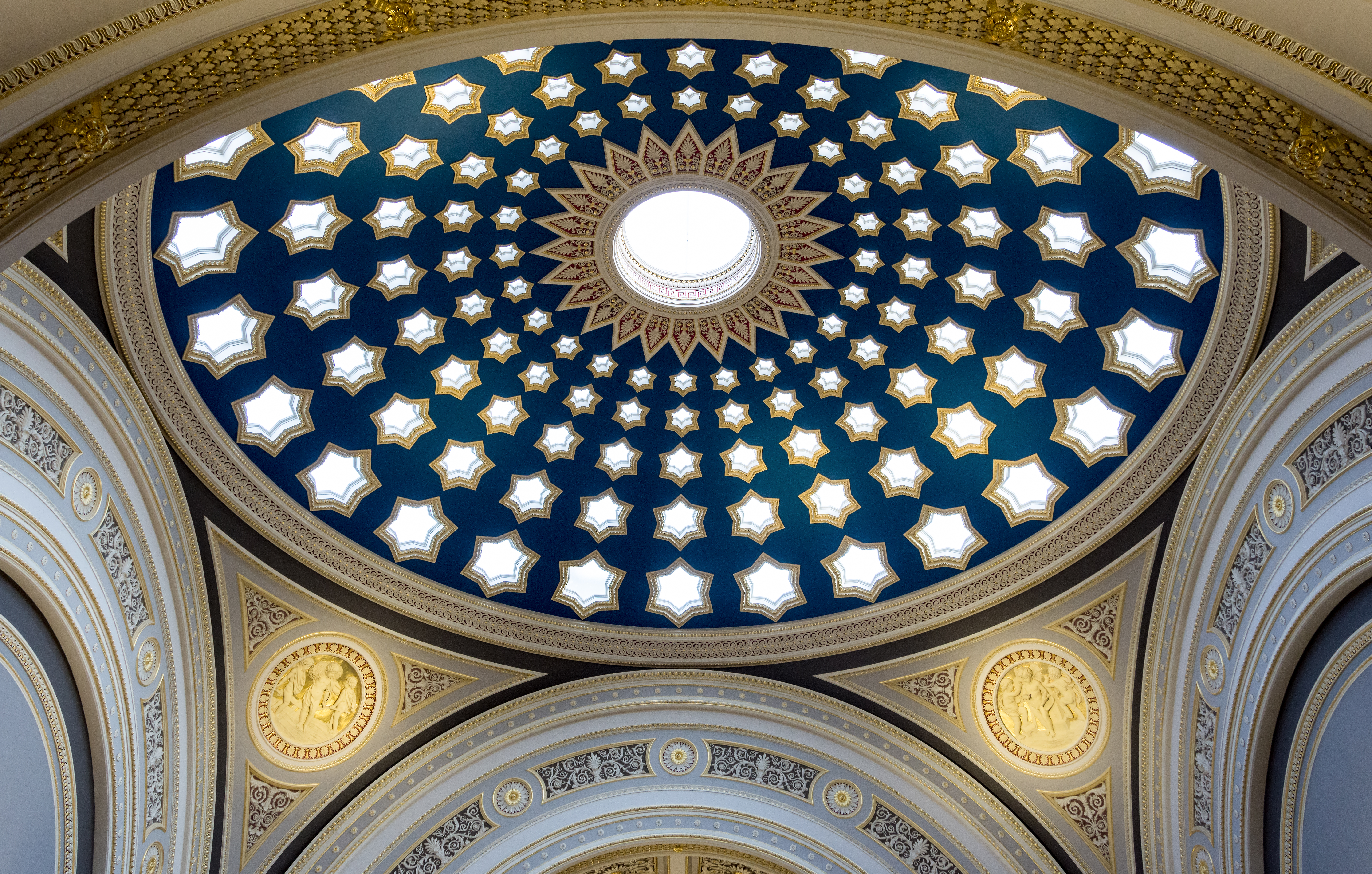 Interior of the dome in the banking hall in Dundas House, St Andrew Square in Edinburgh, Scotland. The house was designed in 1771 the architect Sir William Chambers; it was acquired by the Royal Bank of Scotland in 1825 and it is now the registered head office of the Royal Bank of Scotland. The large, opulent banking hall was added in 1857 by John Dick Peddie, who covered it with a huge dome. The interior of this dome is painted blue, pierced by 5 tiers of star-shaped gold-rimmed coffered skylights radiating out from the central oculus which diminish in size towards the centre, representing the firmament. An illustration of this star pattern featured on Royal Bank of Scotland's "Islay" series of banknotes which were in circulation 1987–2016.[1]